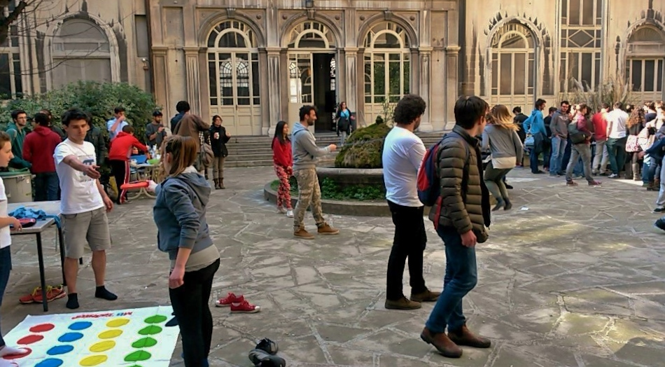 Students of UNIMI of the department of mathematics celebrating the Pi Day of the century (3-14-15 as 3.1415) in 2015. (the celabrations occurred on friday because the department is not open on saturdays) the Pi Party was holp in the court yard of the mathematics department building in via Saldini 50, Milan